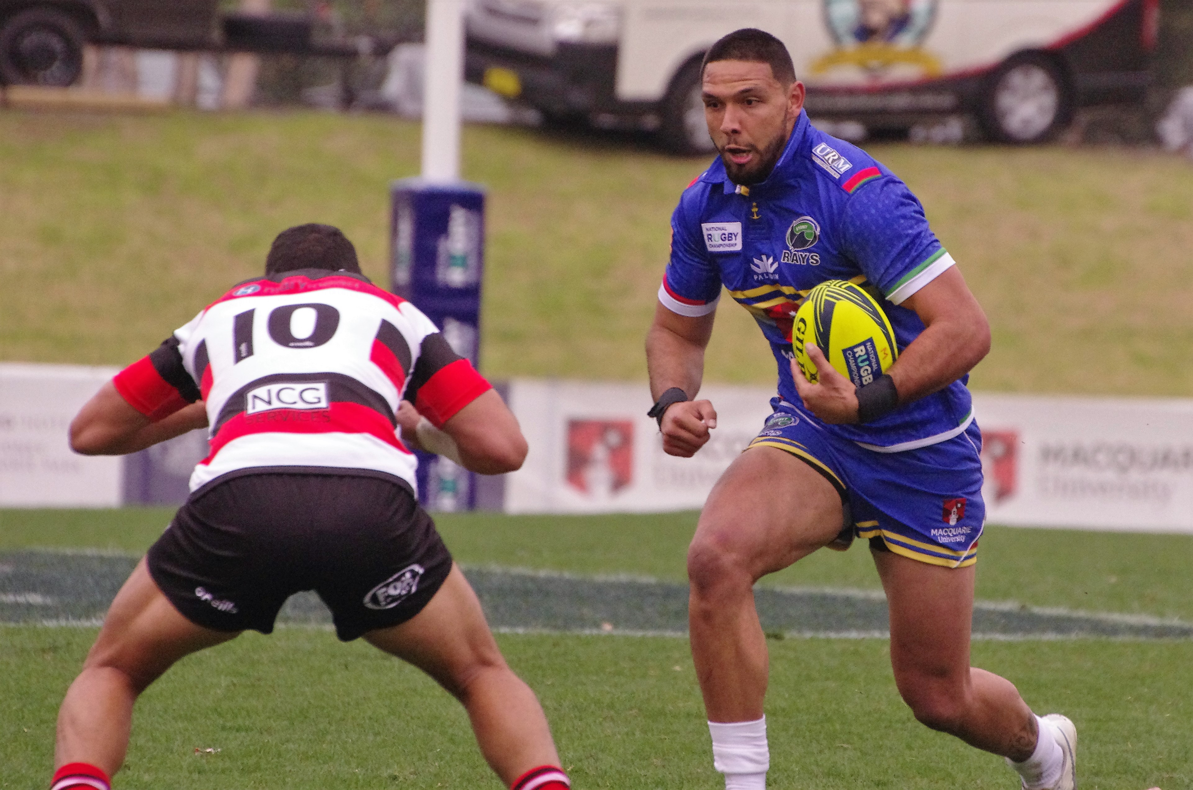 Rugby player Curtis Rona for Sydney Rays runs the ball against Wharenui Hawera of Canberra Vikings in the 2018 National Rugby Championship at Concord Oval in Sydney, Australia.